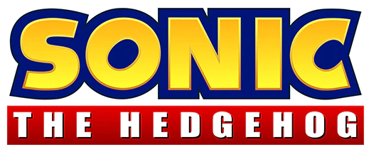 The logo of Sonic the Hedgehog